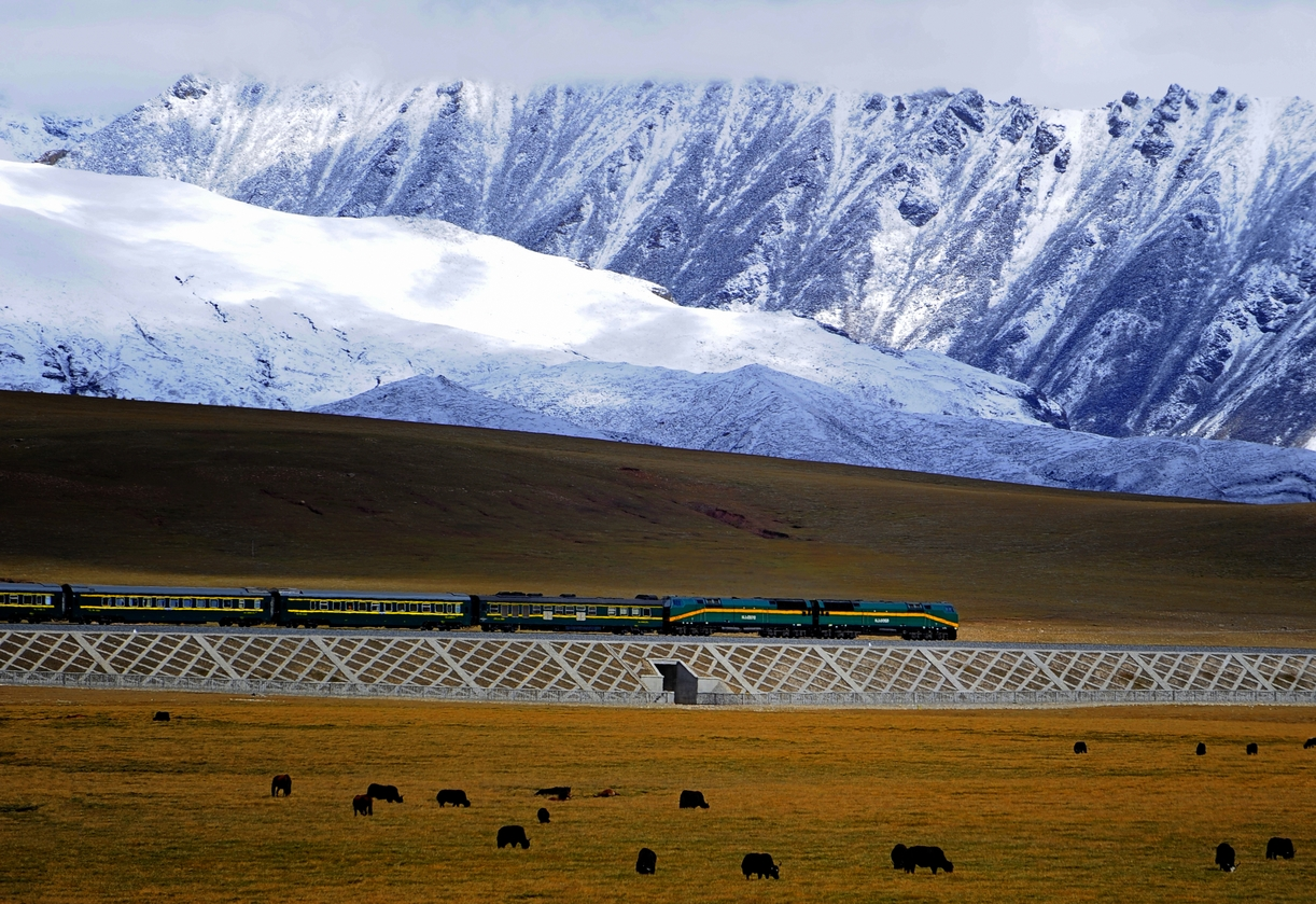 Chinese train takes control over Tibet about 20 km north of Yangbaijan